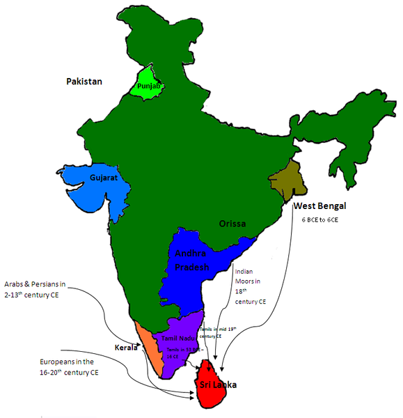 Created this image